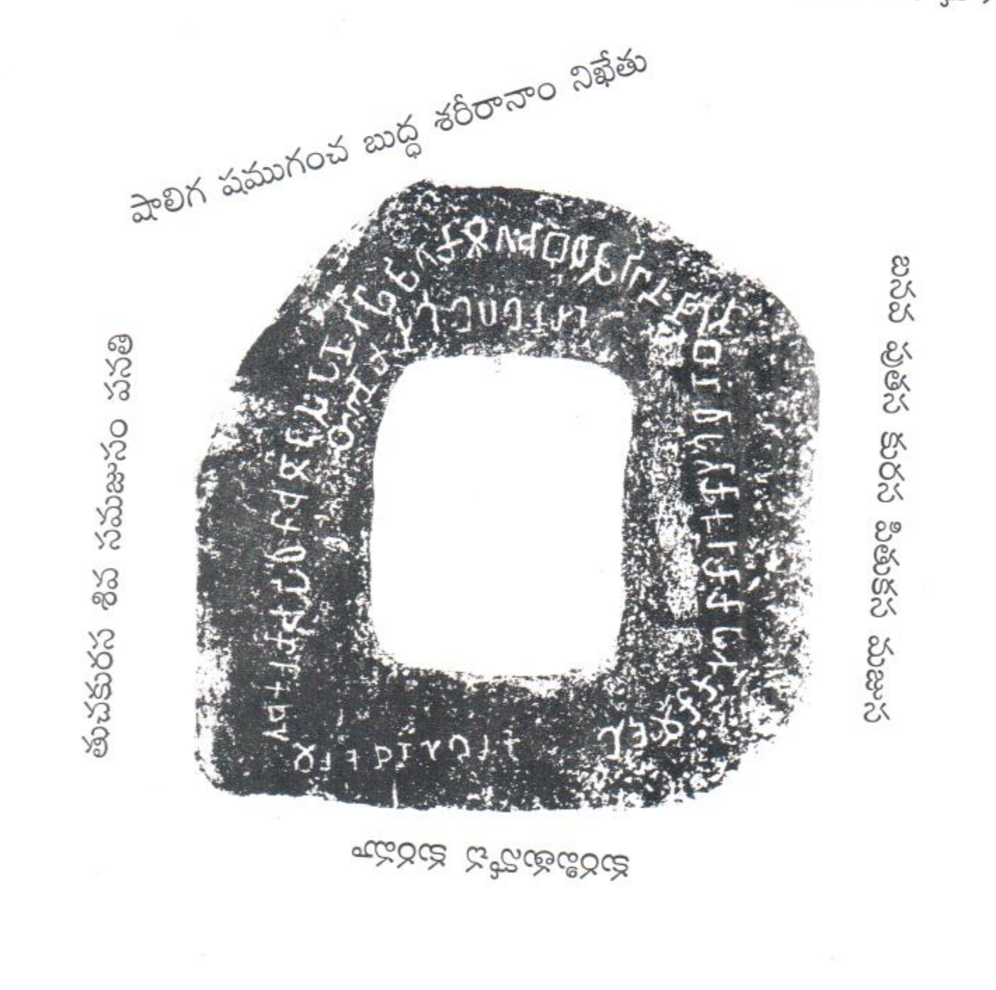 The 1st stone inscription excavated at Bhattiprolu believed to be from 3rd century BCE.